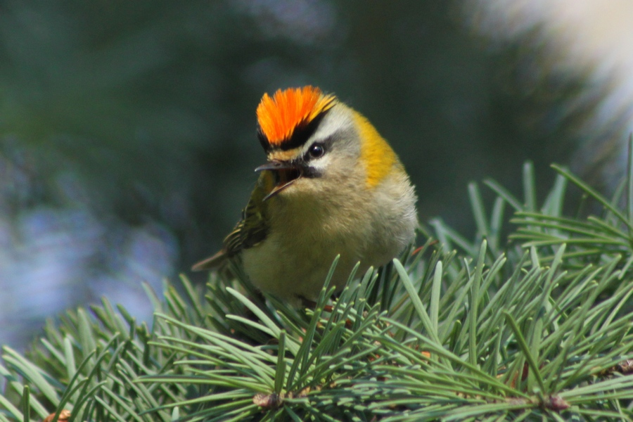 Singing male.